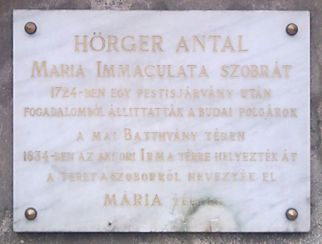 Antal Hörger commemorative plaque in Budapest District I (Mária Square)